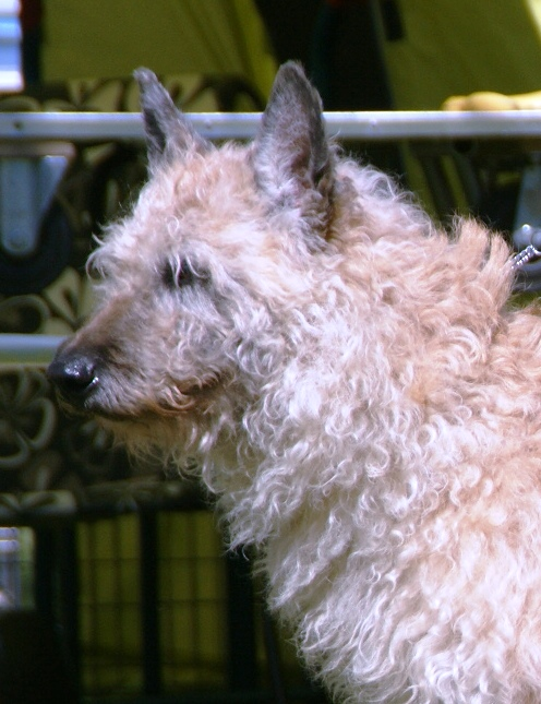 Head of a Belgian Shepherd, variation Laekenois.